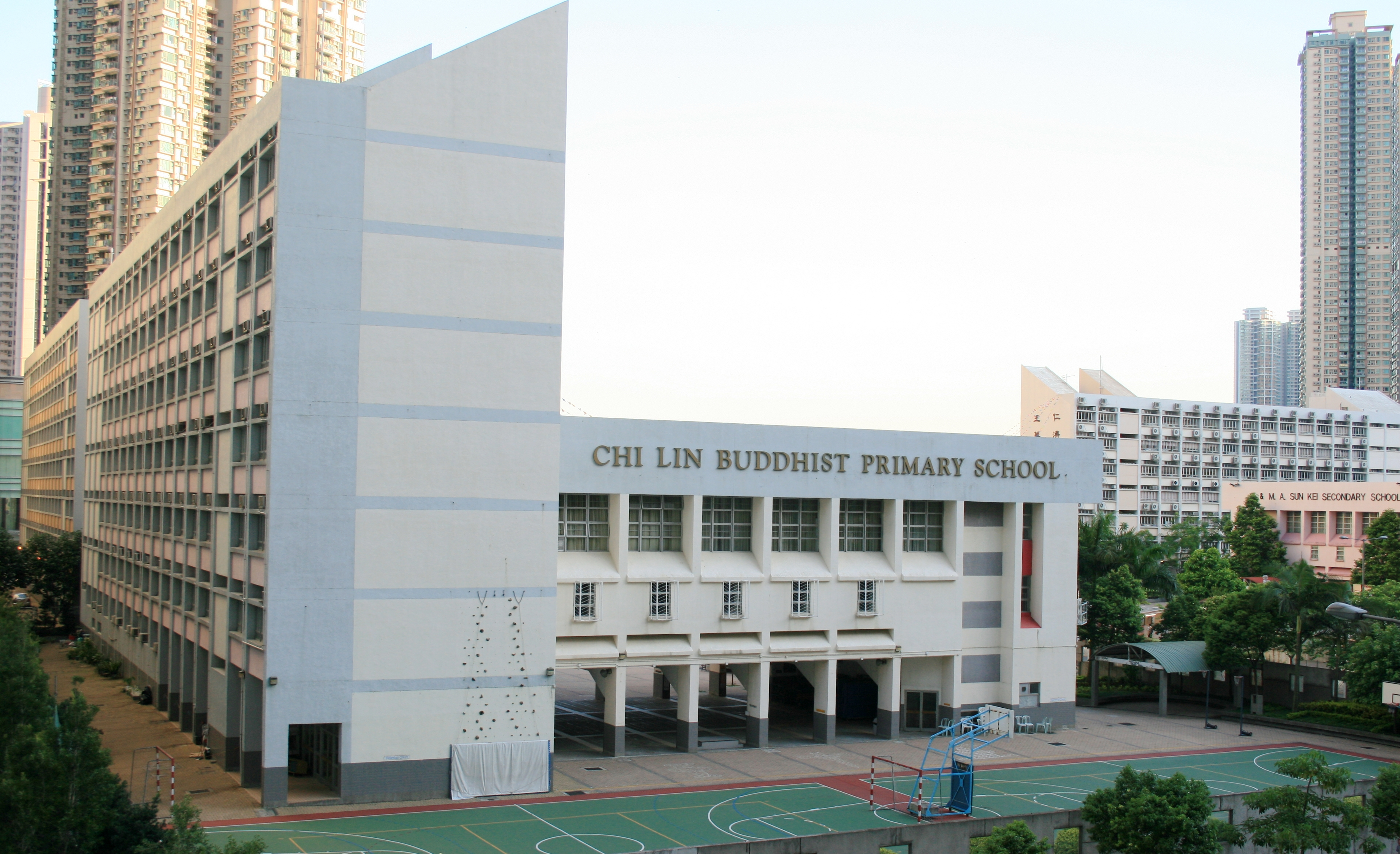 Chi Lin Buddhist Primary School 將軍澳佛教志蓮小學